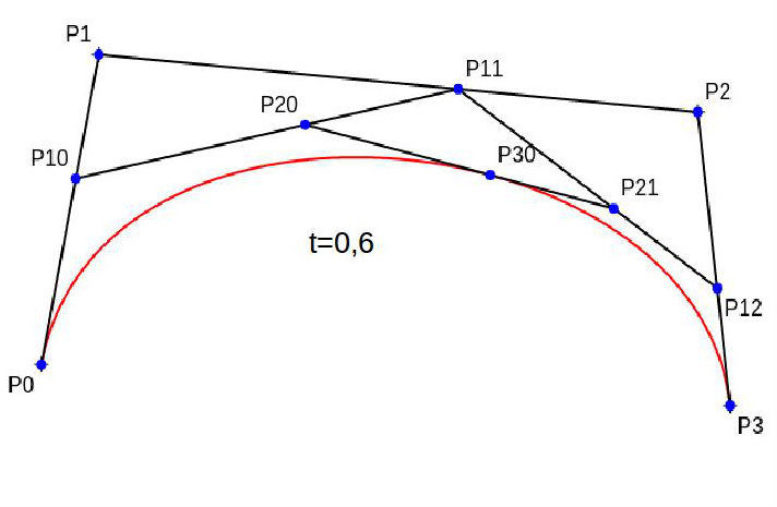 De Kasteljau algoritam